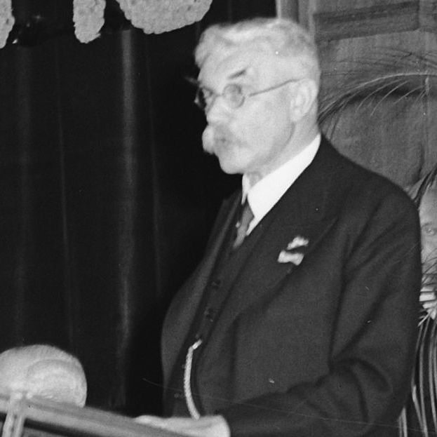 Gerrit van Iterson, 1948